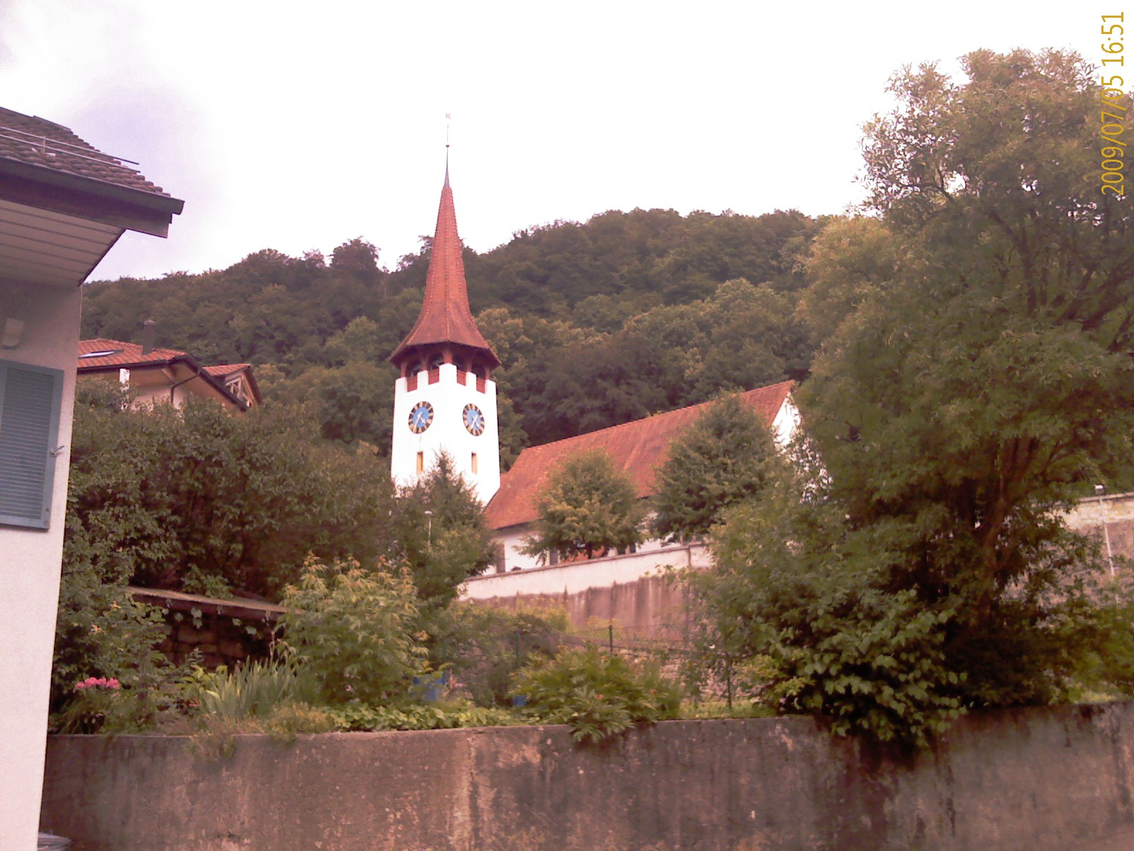 Church of Kienberg, canton of Solothurn, SwitzerlandEsperanto: Preĝejo de Kienberg, Kantono Soloturno, Svislando